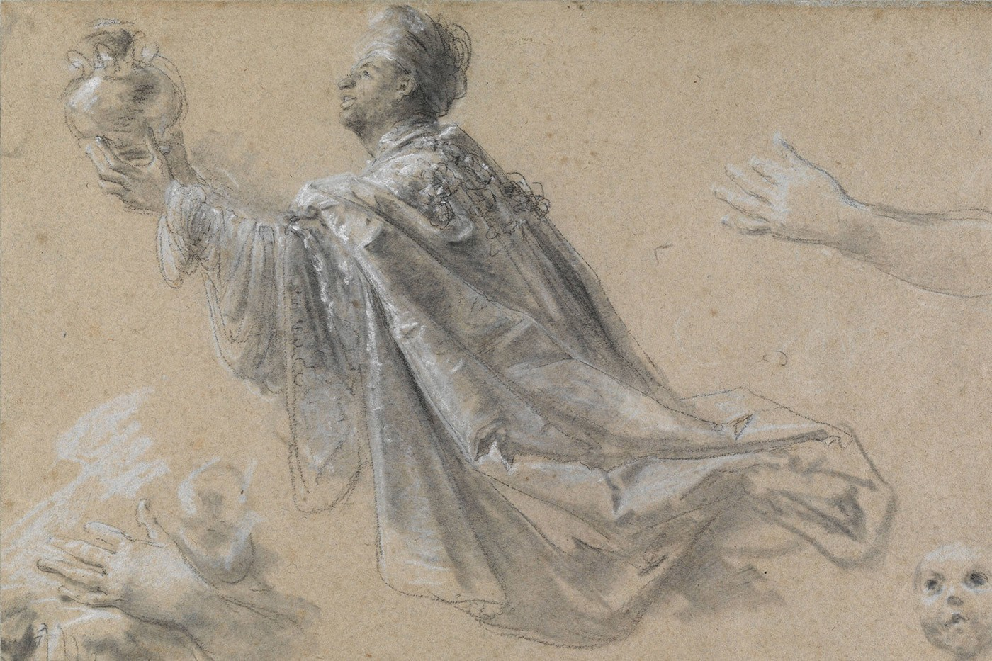 Preparatory study (charcoal and white chalk) for one of the Magi (Balthazar, offering myrrh) in Domingos Sequeira's 1828 painting The Adoration of the Magi. National Museum of Ancient Art, Lisbon.